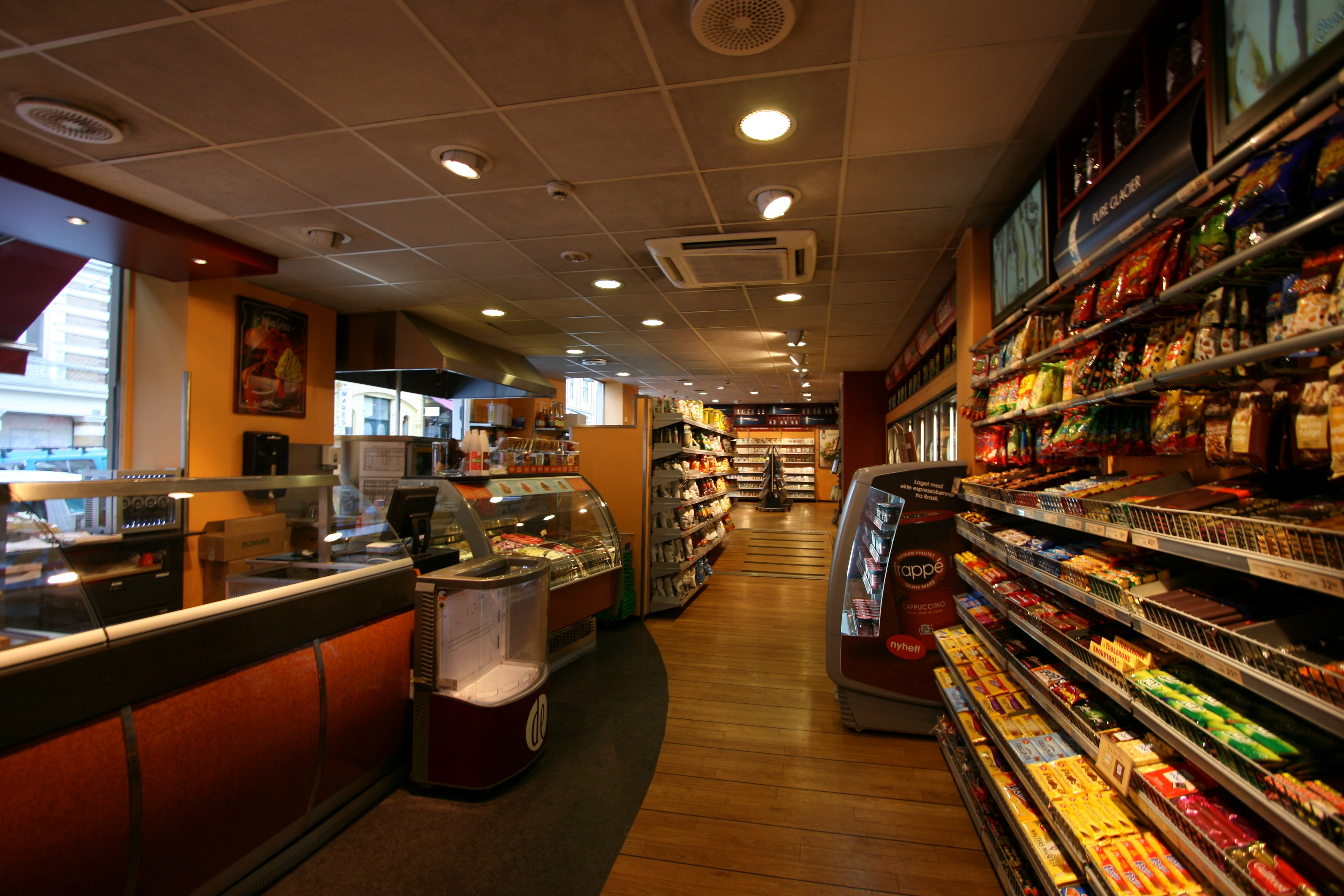 Deli de Luca convenience store, Oslo, Norway.